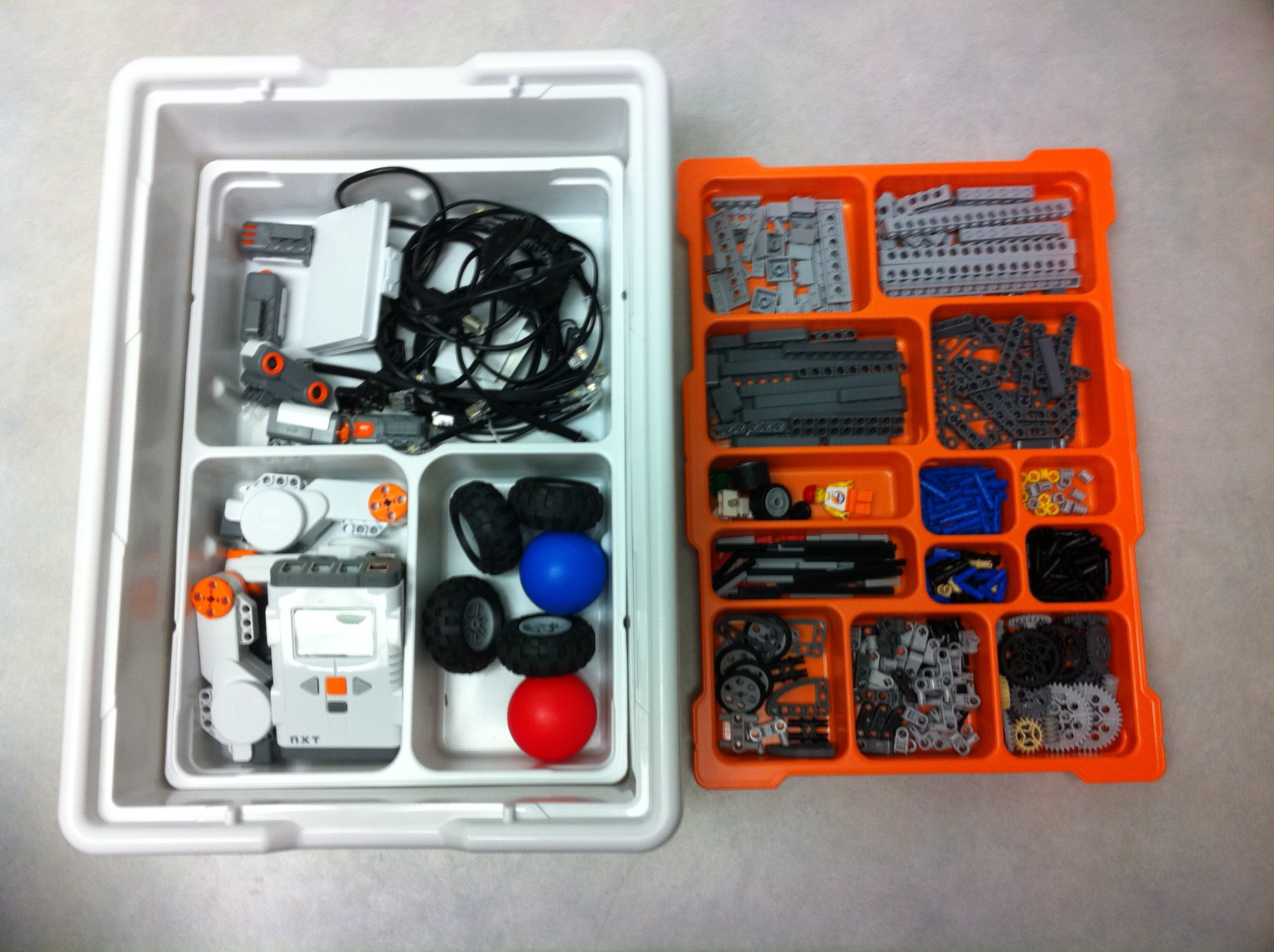 The Lego Mindstorms kit, including the NXT intelligent brick, motors, sensors, and structural members.